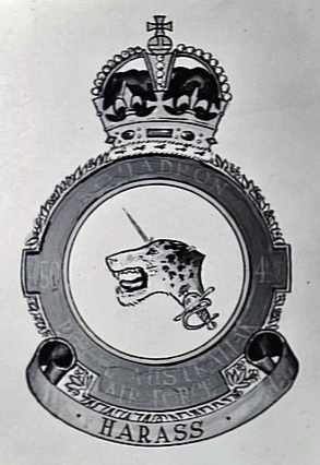 July 1943. The official crest for the Desert Harassers, No. 450 (Kittyhawk) Squadron RAAF. A competition was held on the Squadron for a design for a squadron badge. This was won by Les Rex, a ground gunner.